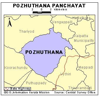 Map of pozhuthana Grama Panchayath